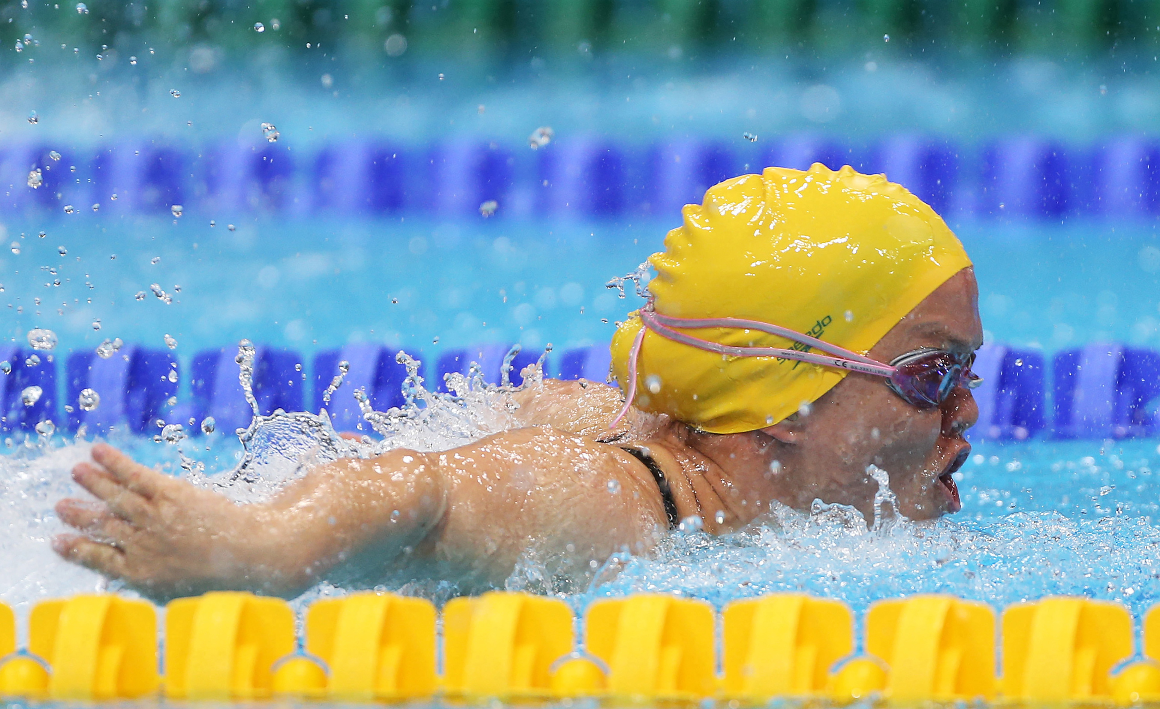 Photograph of Australian Paralympic team member Sarah Rose at the 2012 Summer Paralympic Games in London